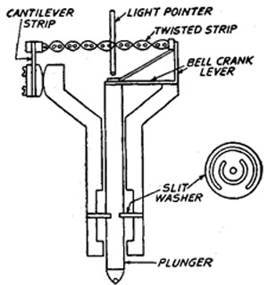 A layout of Johansson mikrokator